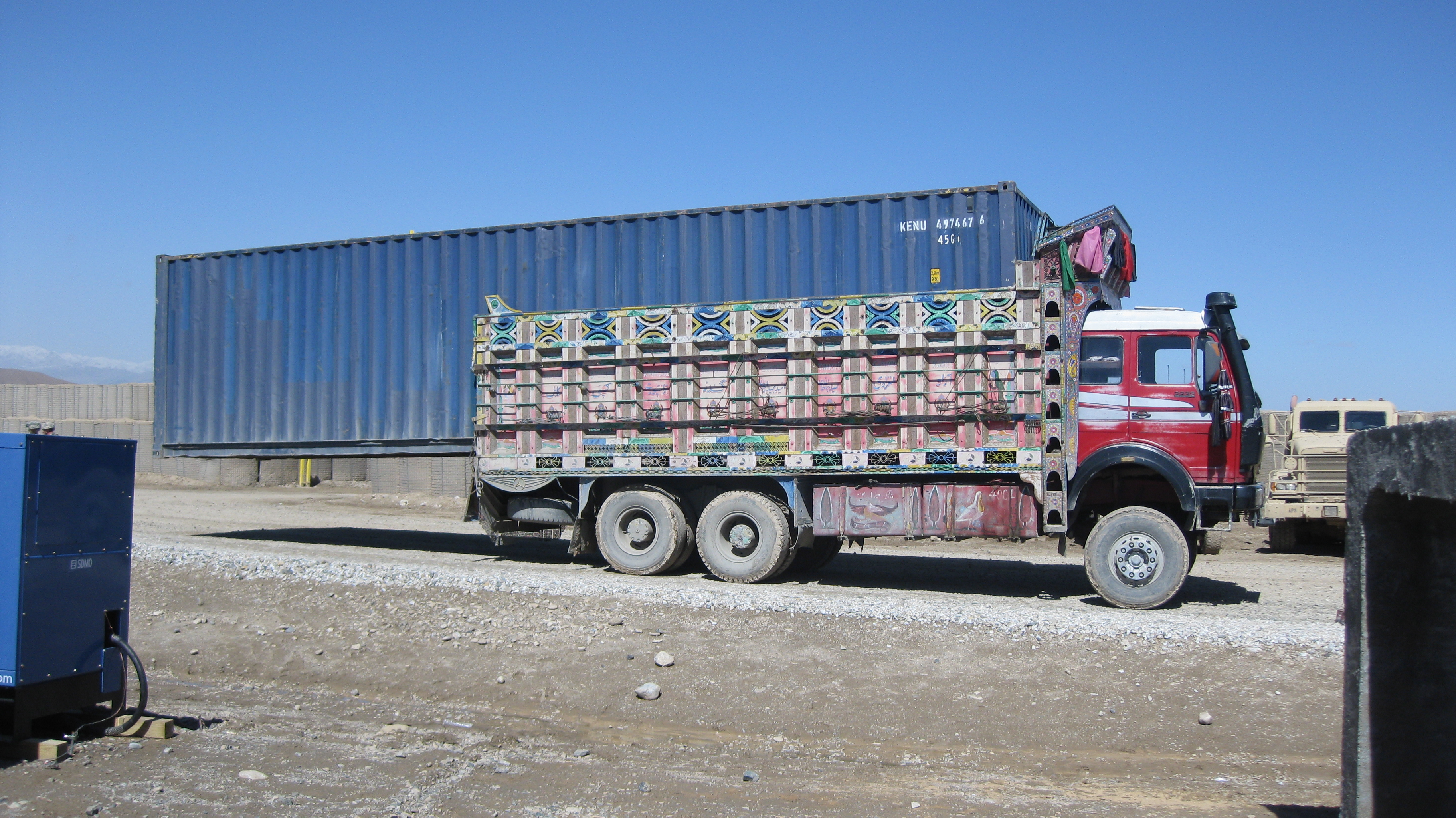 Standard forty-foot shipping container lying unsecured on the 25 foot bed of a medium truck in Afghanistan. Check the clearance between the front tires and the cab!